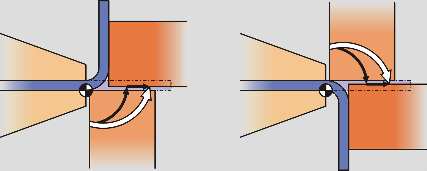 Folding up and down